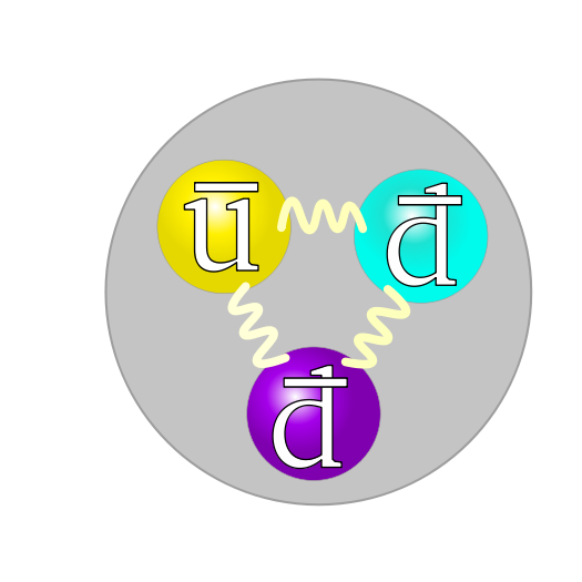 Quark structure of the anti-neutron showing an anti-(blue up) quark, an anti-(red down) quark and an anti(green down) quark mediated by gluons.